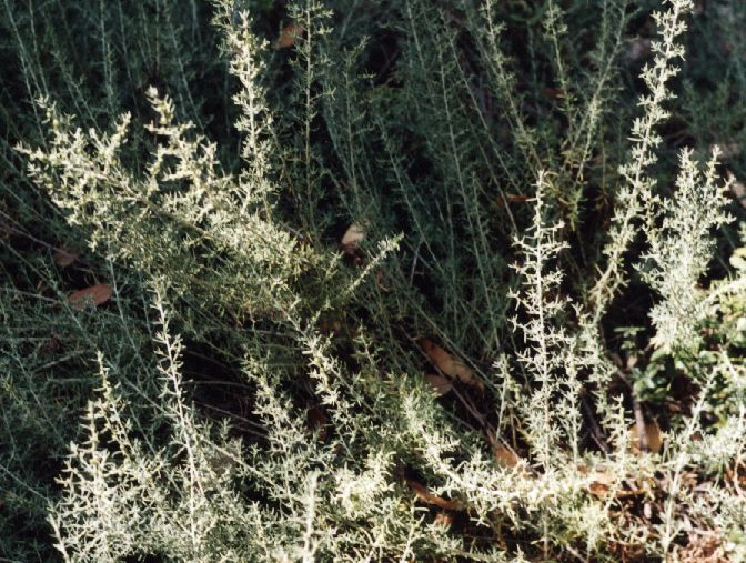 Enchylaena tomentosa - Villa Hanbury - Ventimiglia - Italy